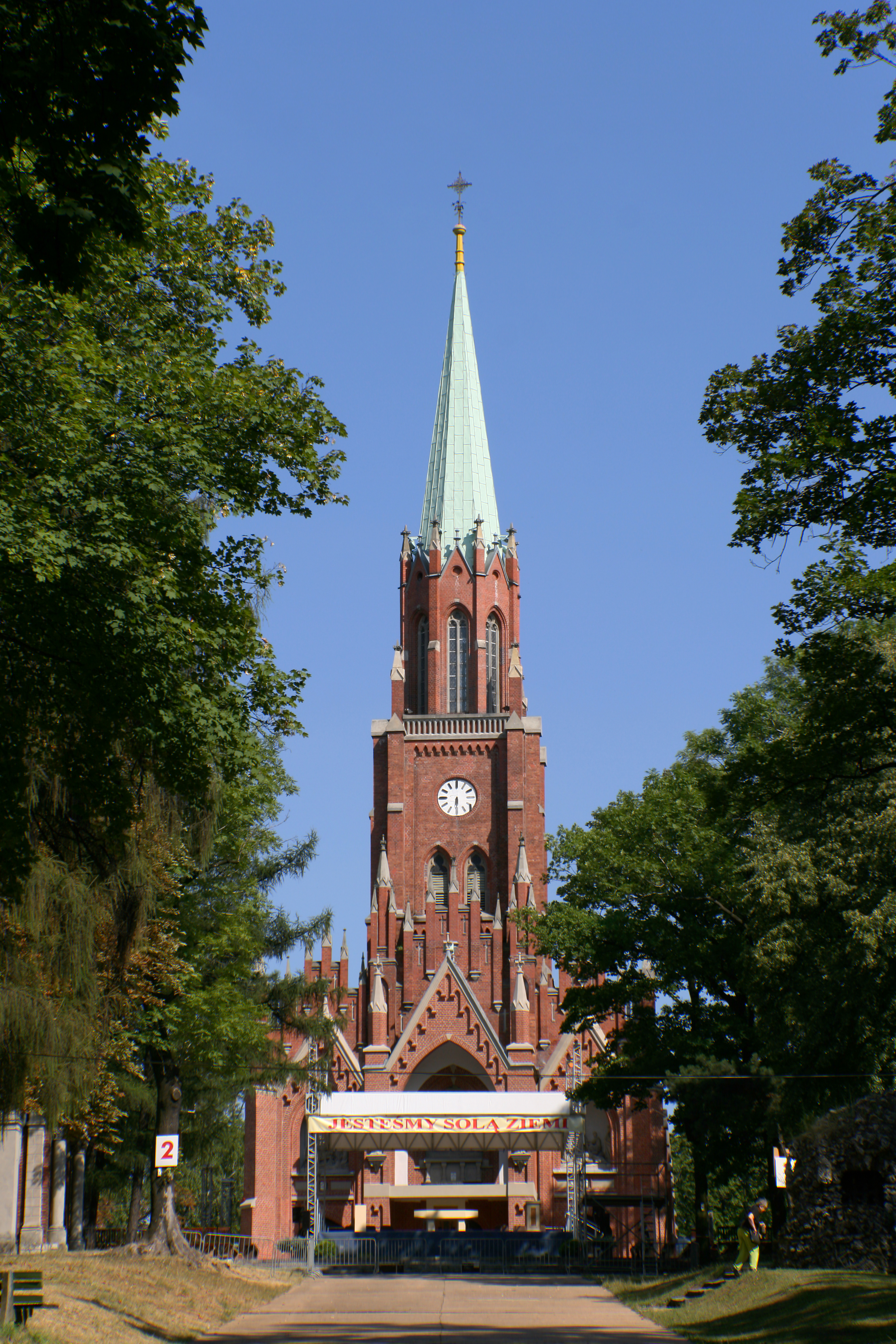 Church of Resurrection of the Lord on a Calvary in Piekary Śląskie.